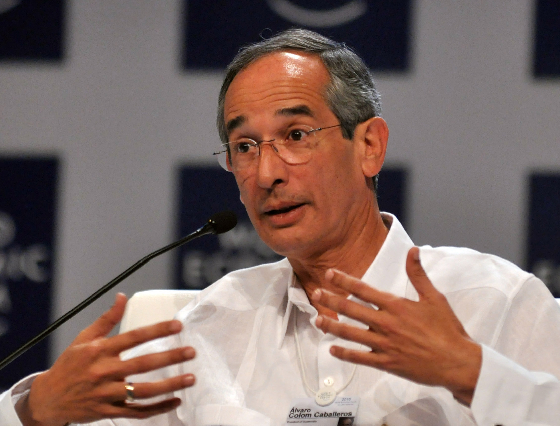 CARTAGENA/COLOMBIA, 8 APRIL 2010 - Álvaro Colom Caballeros, President of Guatemala in the Presidents Plenary at the World Economic Forum on Latin America 2010 in Cartagena Convention Center from 6 - 8 April.